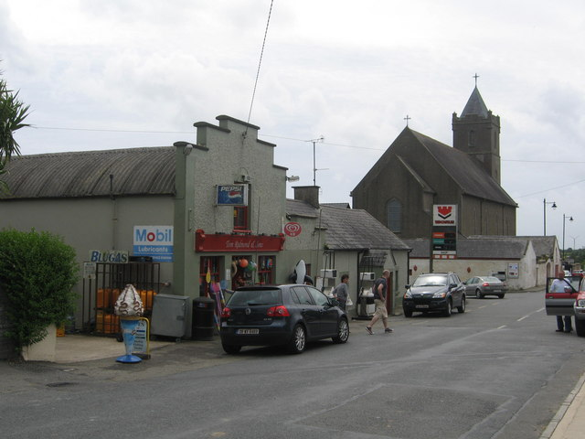 Village Petrol Station Old style filling station one of the few still selling the Tedcastles brand